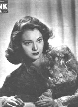 Frances Rafferty Publiv Domain image from Yank, the Army Weekly magazine (Sep. 16, 1943) - United States military publication